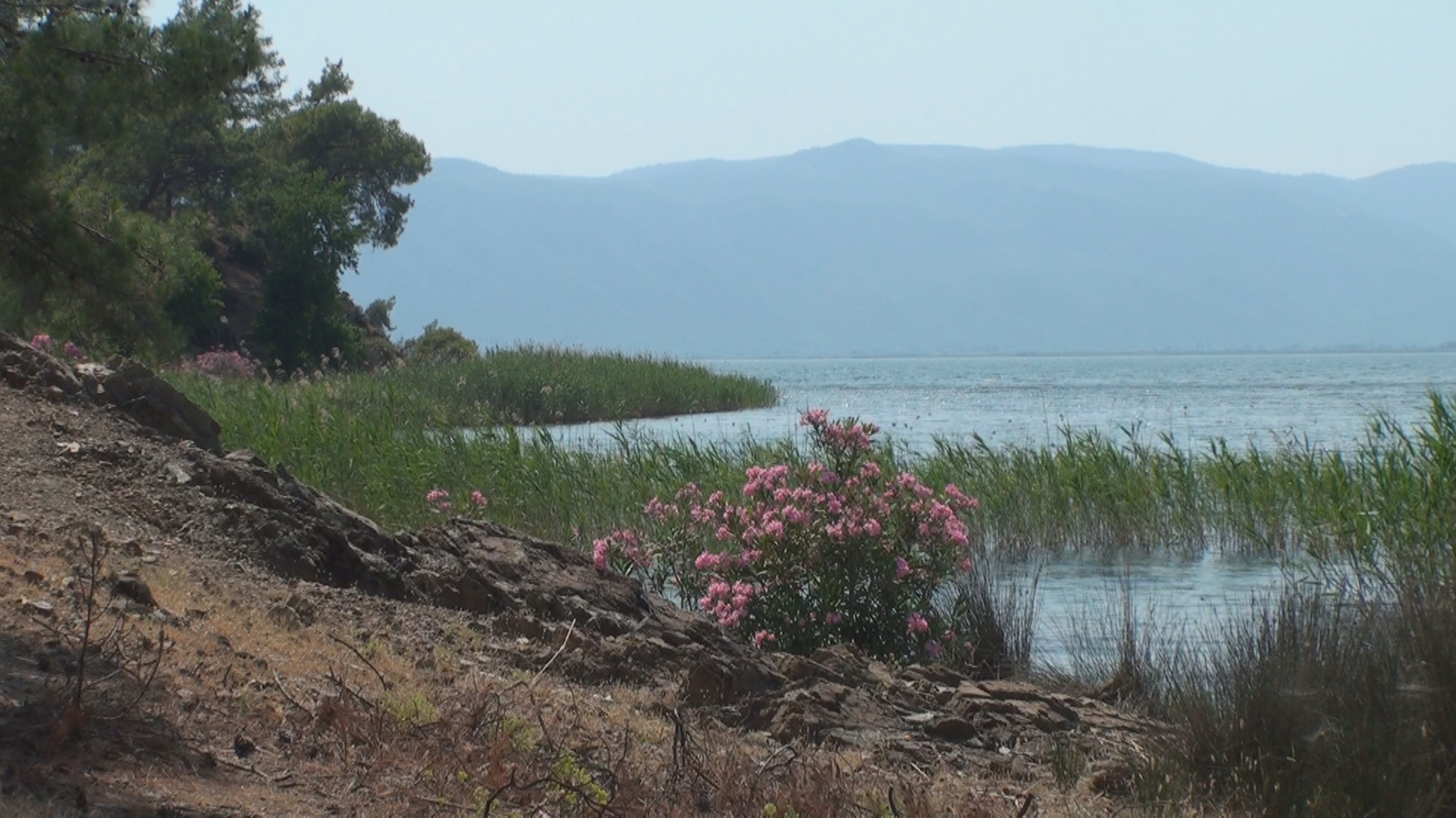 Köyceğiz Lake, seen from Eski Köyceğiz. Photo: Maria Jonker